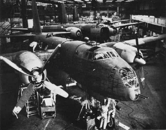 The Lockheed P2V-1 Neptune assembly line in 1946/47.